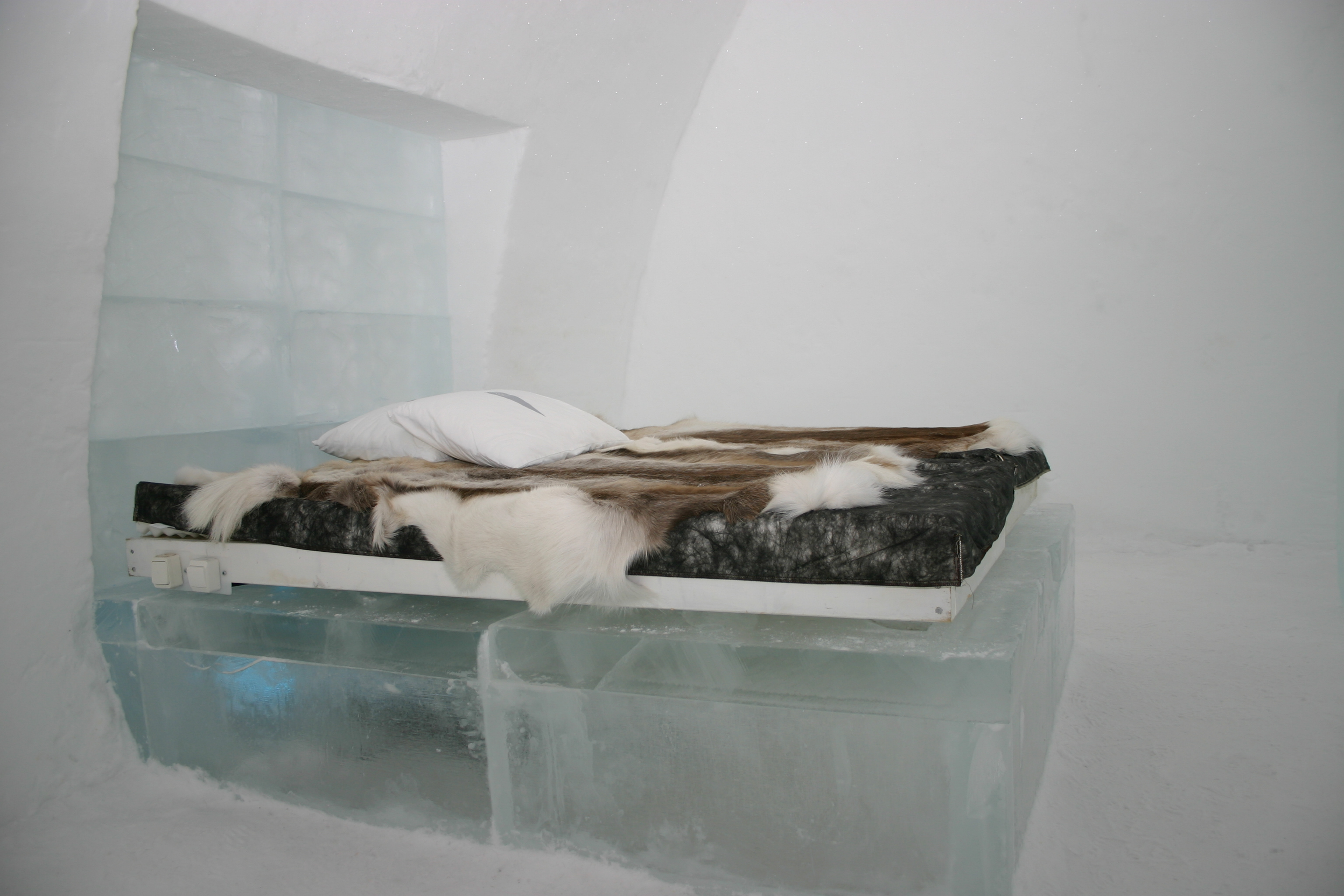 The Ice Hotel in Sweden. The Ice Hotel near the village of Jukkasjärvi, Kiruna, Sweden